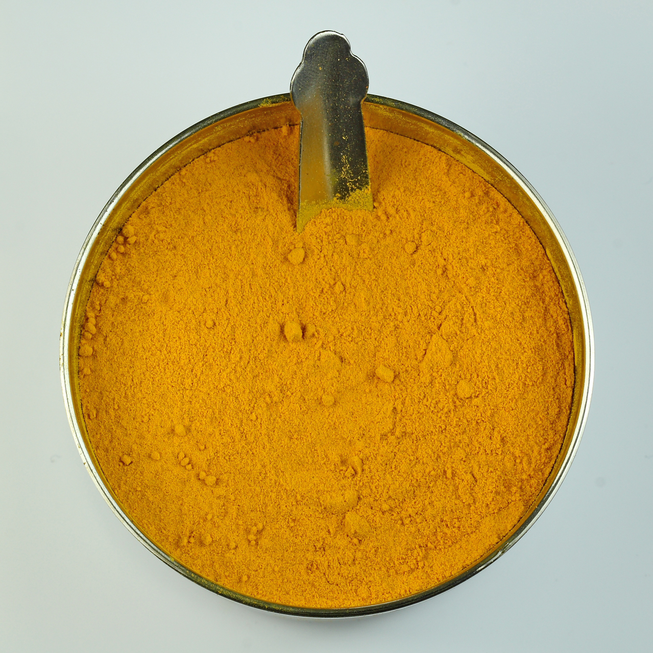 Turmeric powder 薑黃粉